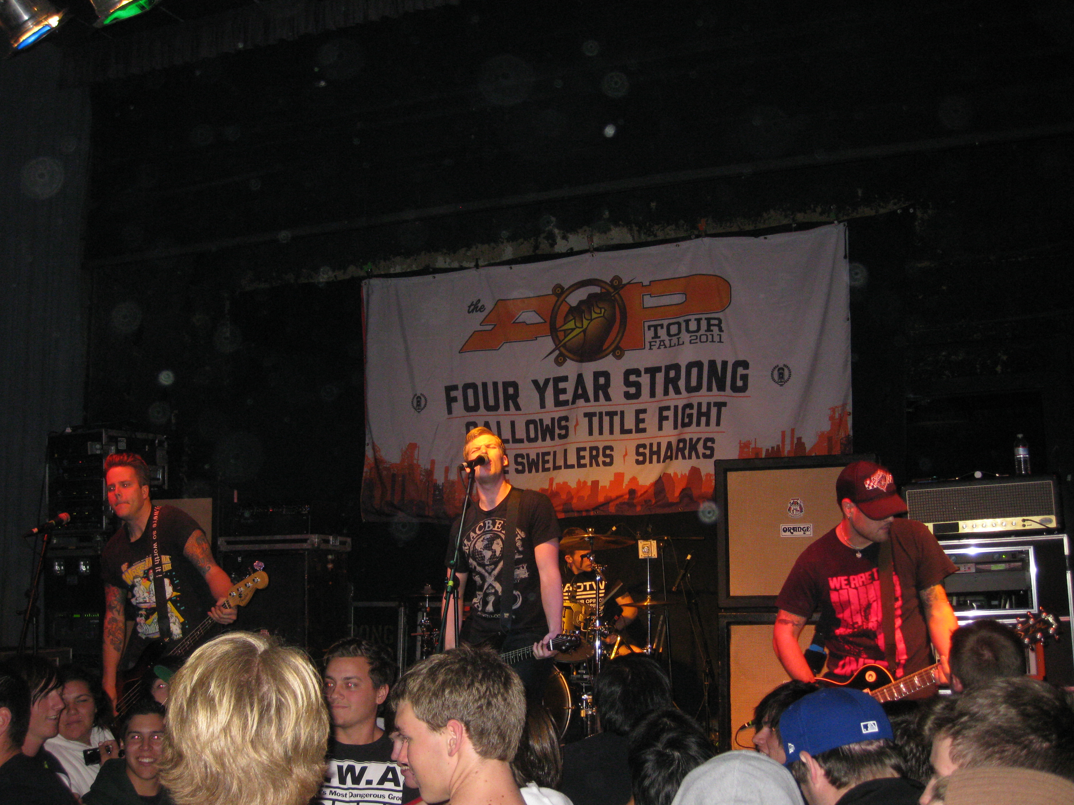 The Swellers performing November 6, 2011 at Soma in San Diego, California as part of The AP Tour. Left to right: bassist Anto Boros, singer/guitarist Nick Diener, drummer Jonathan Diener, and guitarist Ryan Collins.